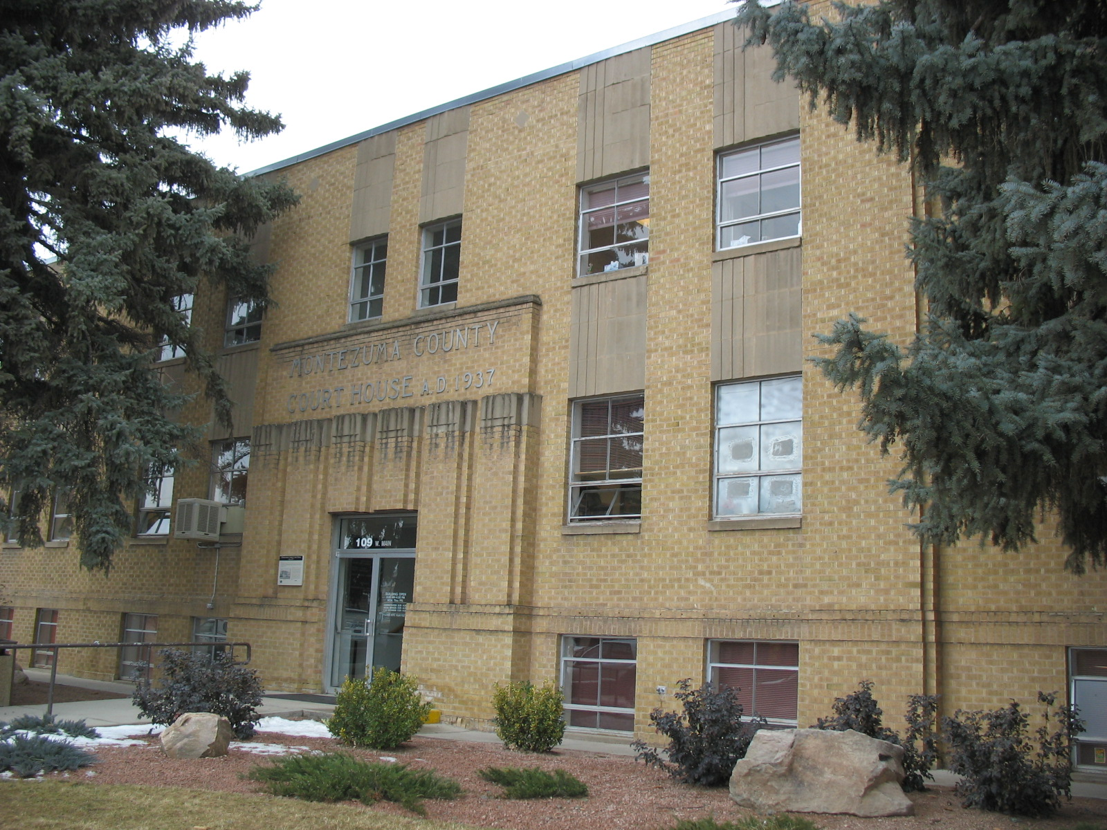 Montezuma County Courthouse in Cortez, Colorado